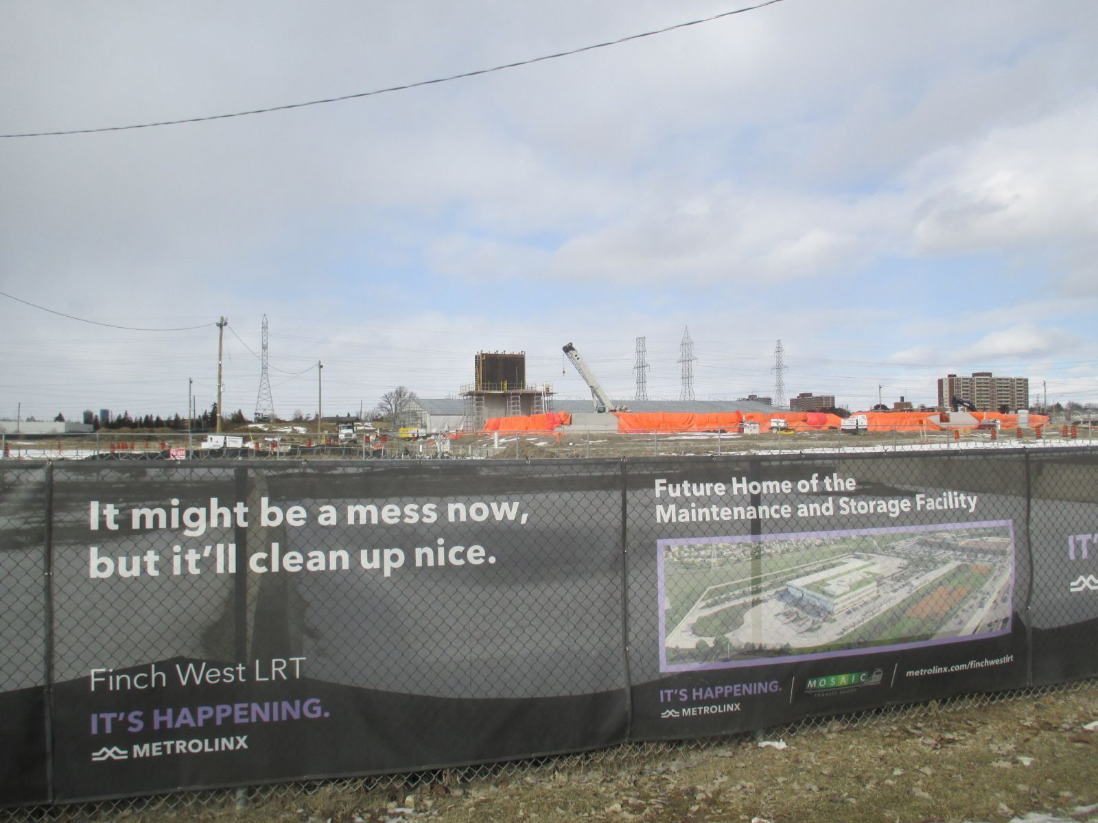 Finch West LRT Maintenance and Storage Facility under construction as of February 2020